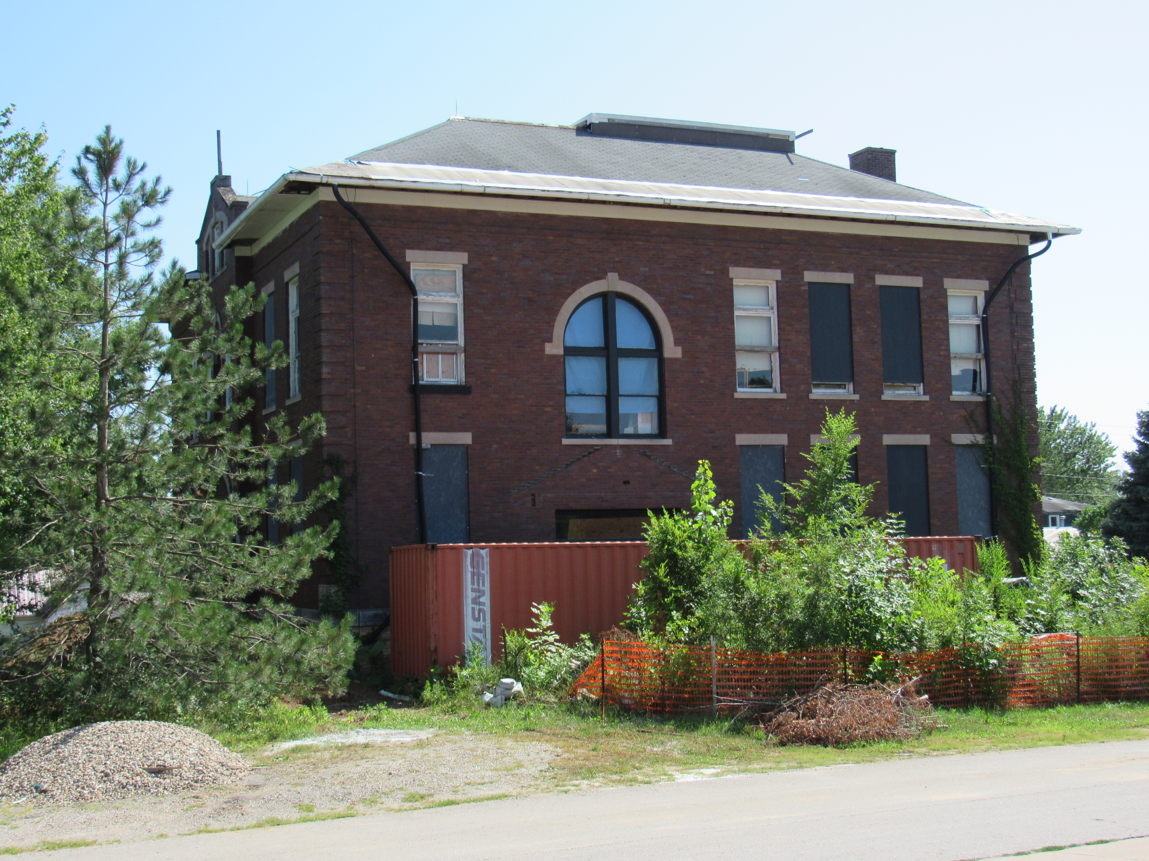 The former St. Mary's School in Riverside, Iowa.